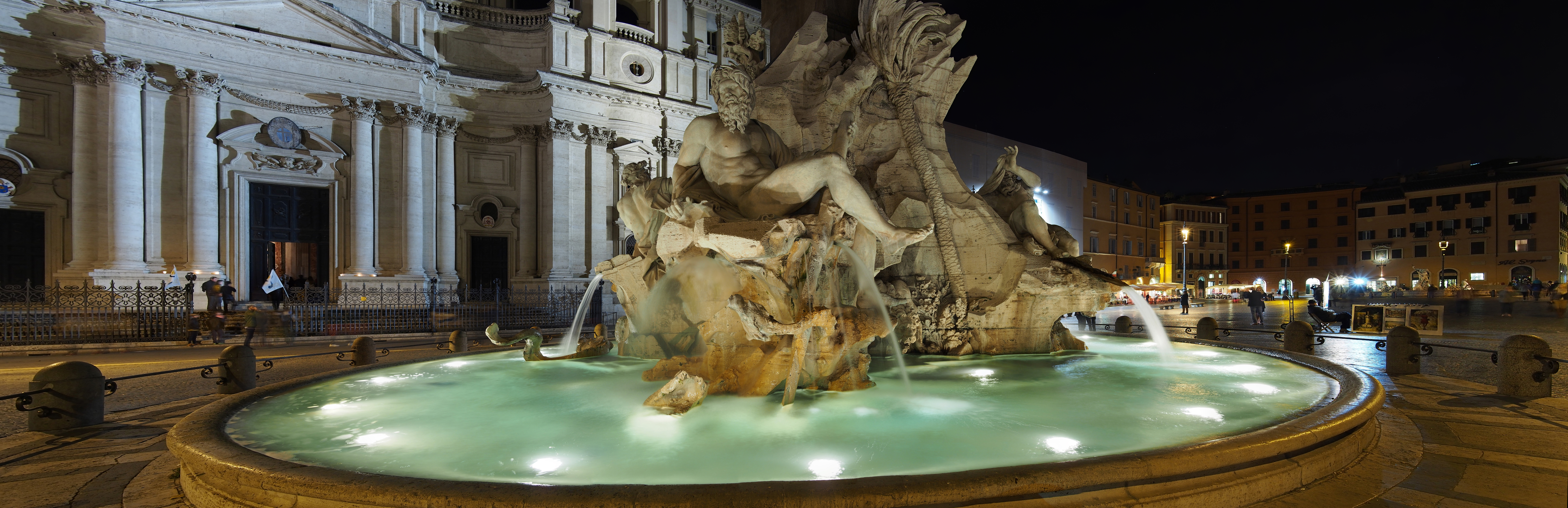 Fountain of the Four Rivers (Fontana dei Quattro Fiumi), Piazza Navona, Rome, Lazio, Italy. Four river-gods represents: the Nile representing Africa, the Danube representing Europe, the Ganges representing Asia, and the Río de la Plata representing America. Crop of matrix 2×7 photos.